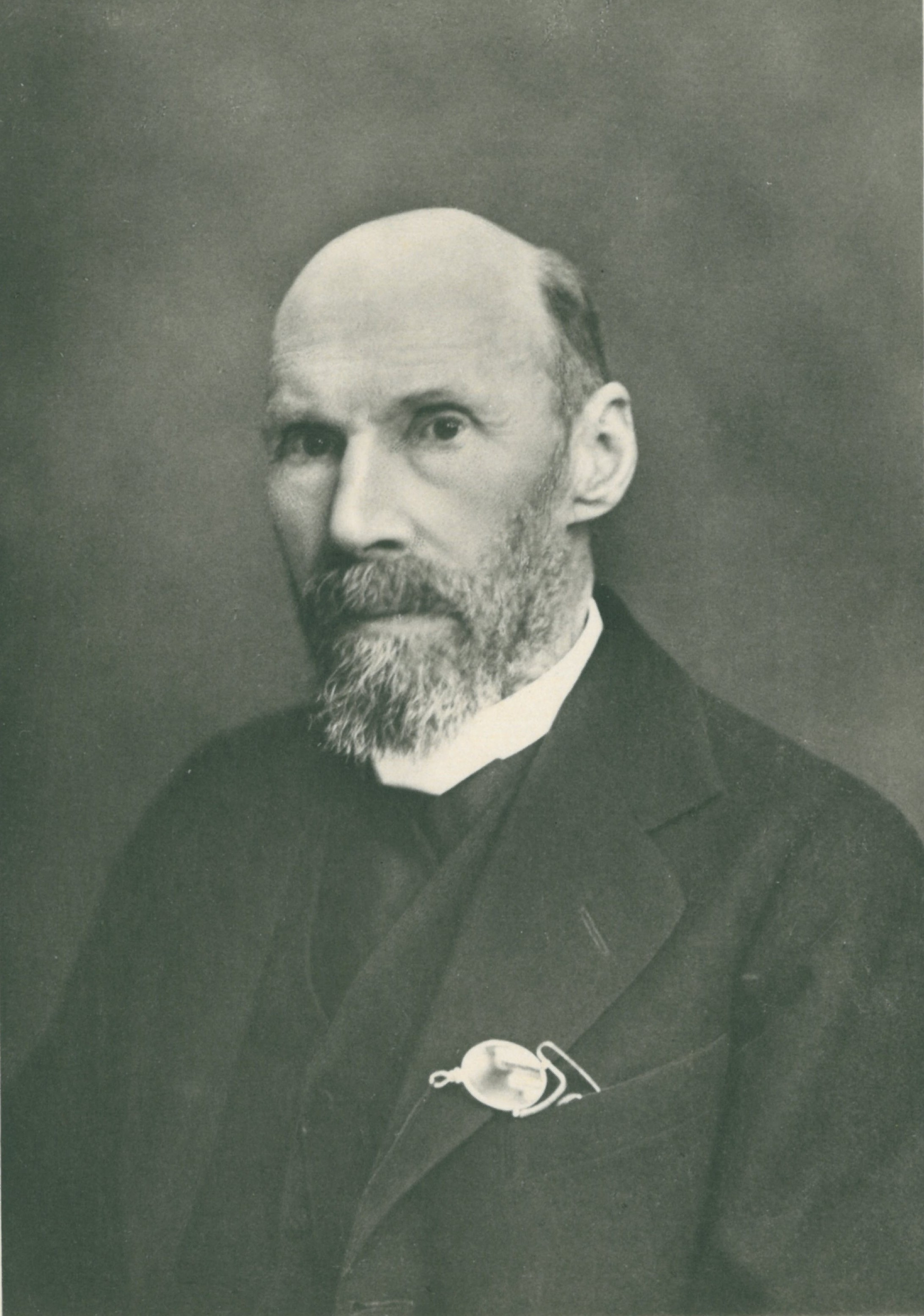 Peter Erasmus Kristian Kaalund (1844-1919), Danish educator and philologist